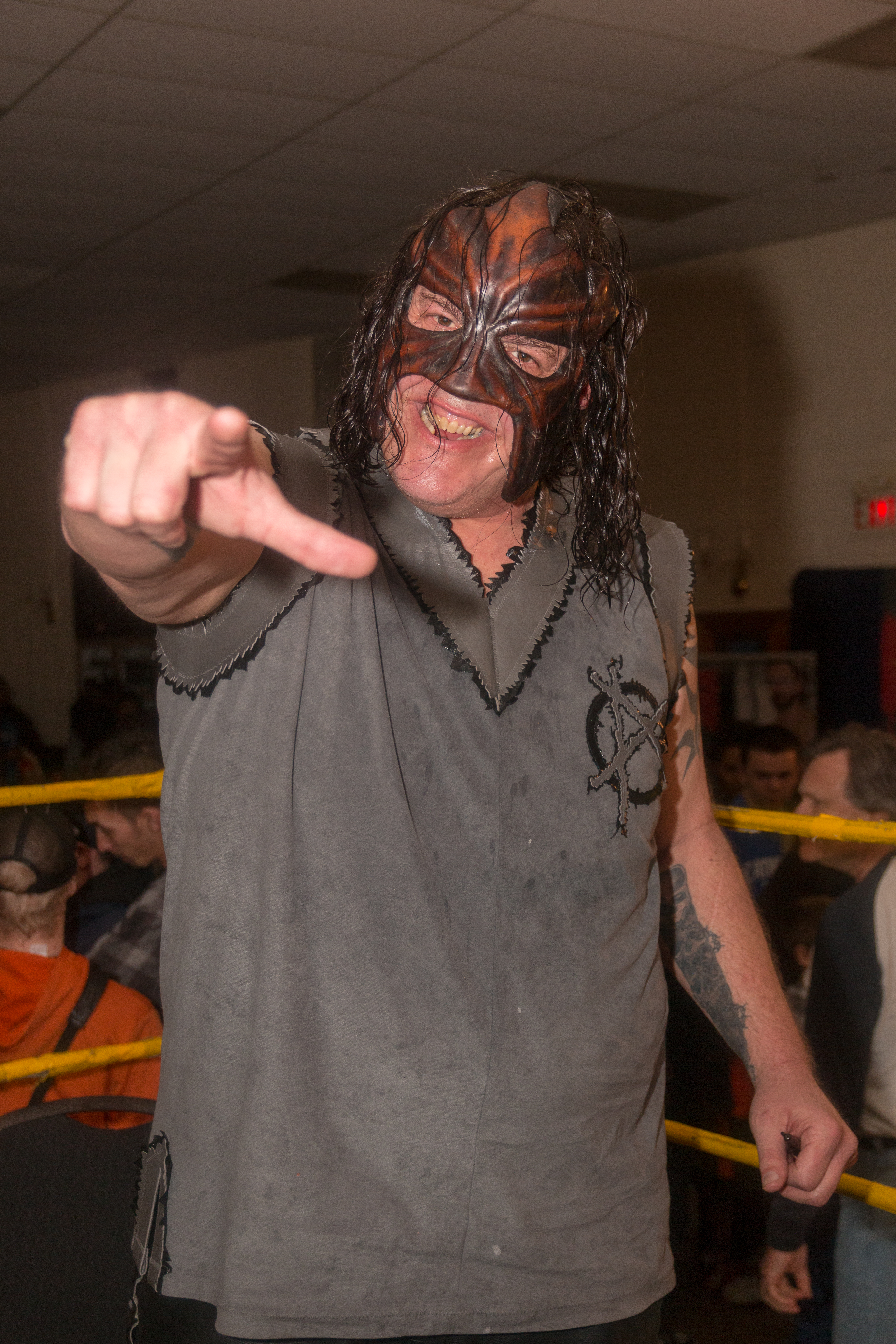 Professional wrestler Abyss posing during an autograph session at intermission at an Alpha-1 show in Hamilton, ON